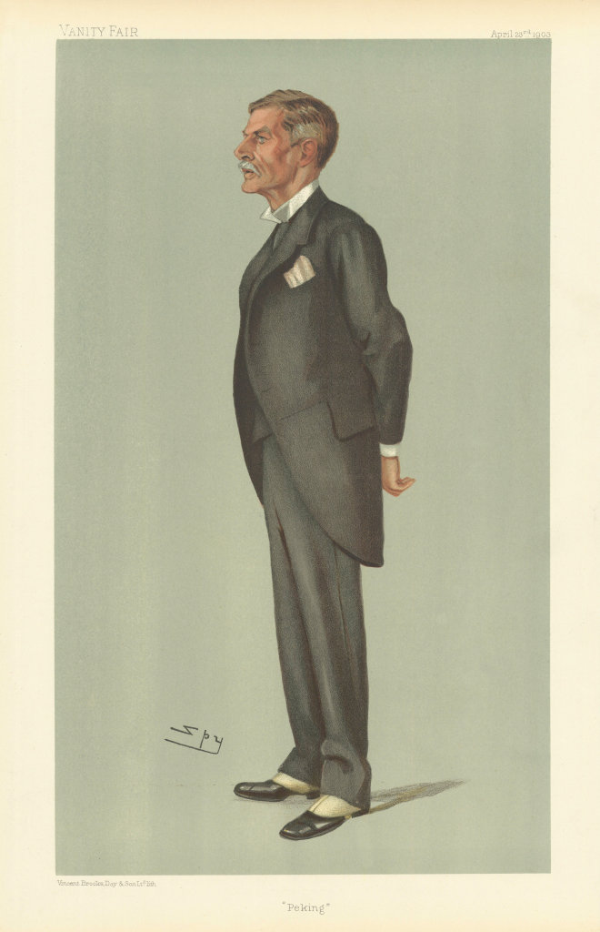 Caricature of Ernest Mason Satow. Caption read "Peking".